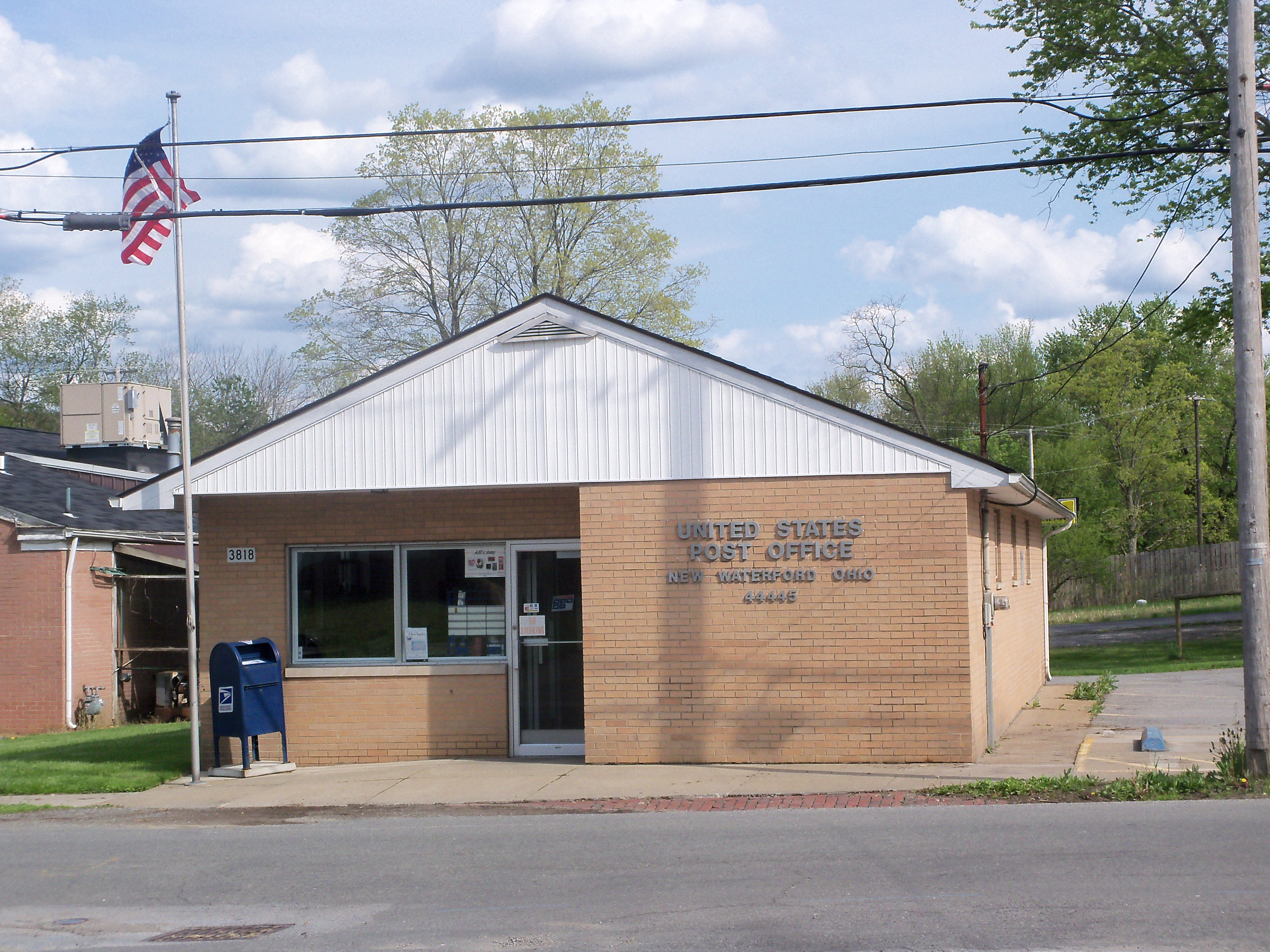 New Waterford, Ohio Post Office